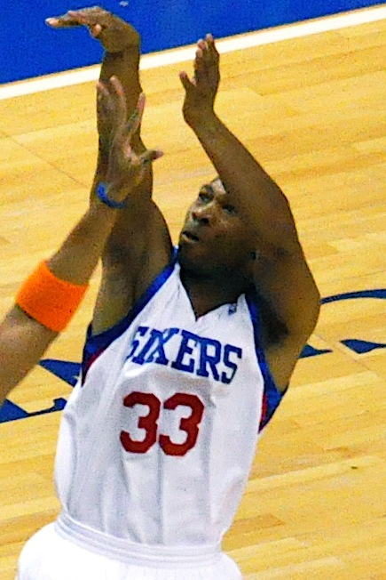 Willie Green of the Philadelphia 76ers shooting over Devean George of the Golden State Warriors. This file has been extracted from another file: Willie Green over Devean George.jpg